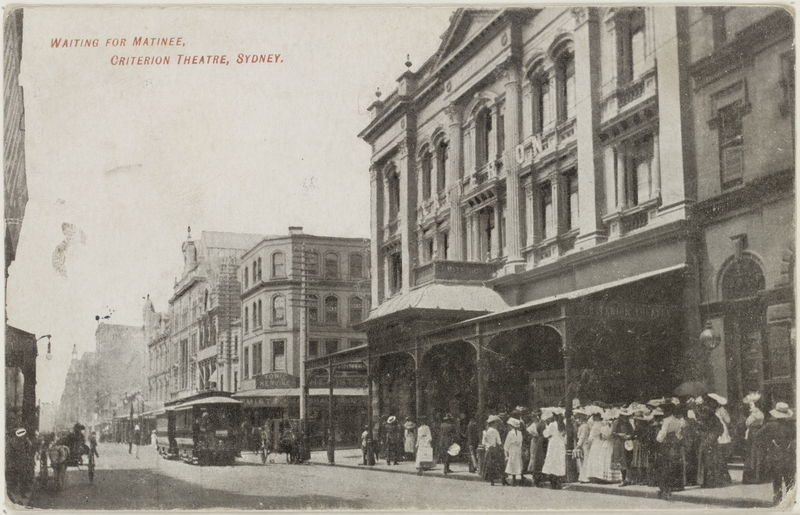 Criterion Theatre, Sydney, ca. 1920. Postcard.